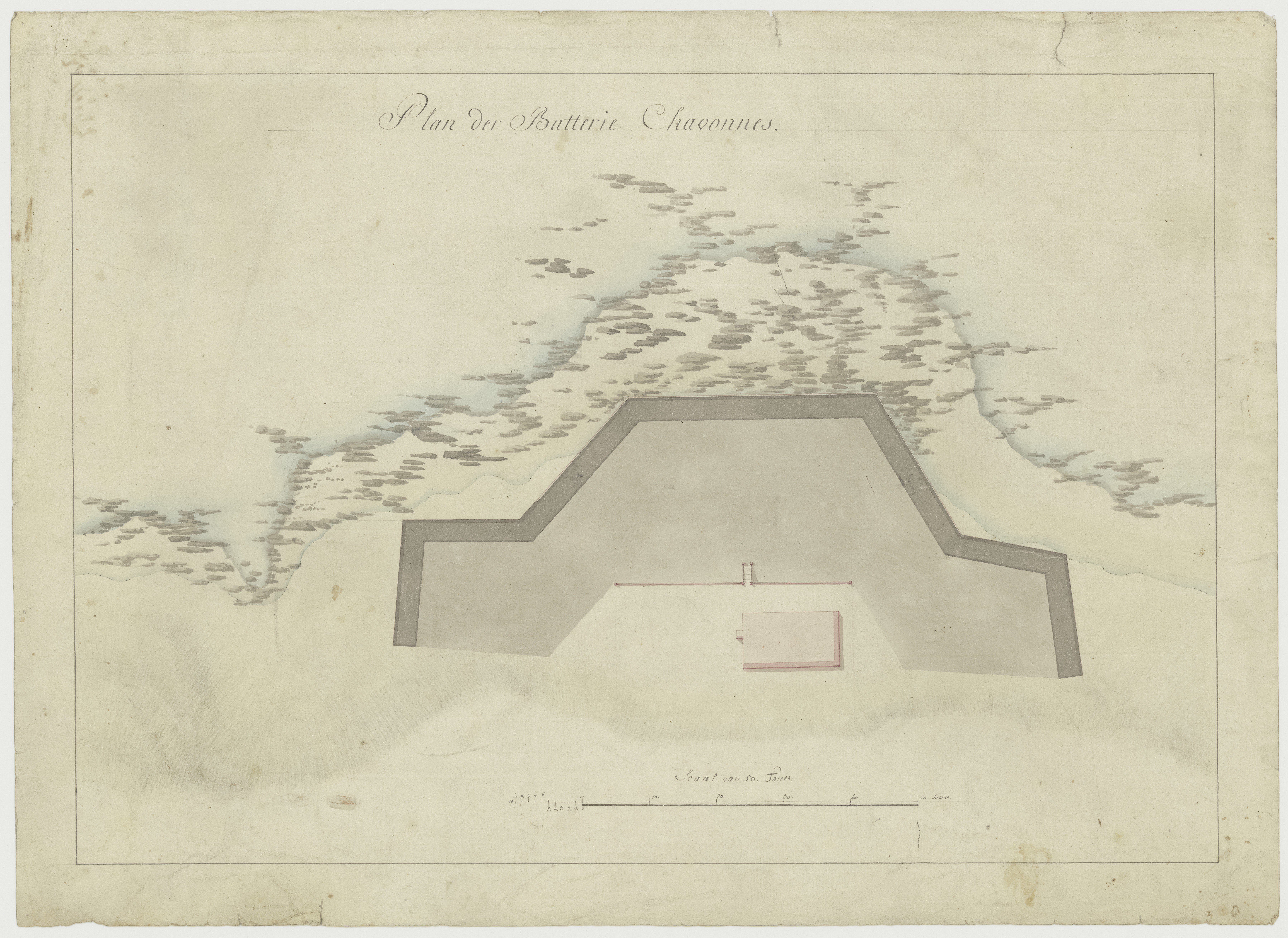 Title in the Leupe catalogue (National Archives): Plan der Batterie Chavonnes]. Notes on reverse: No. 9 Batterij Chavonnes, Register 10, Deel 1, Folio 40, Portefeuille … [written on a blue label] / 493 [in bold figures stamped on a small label] / no. 212 / 5 c. [written one below the other].